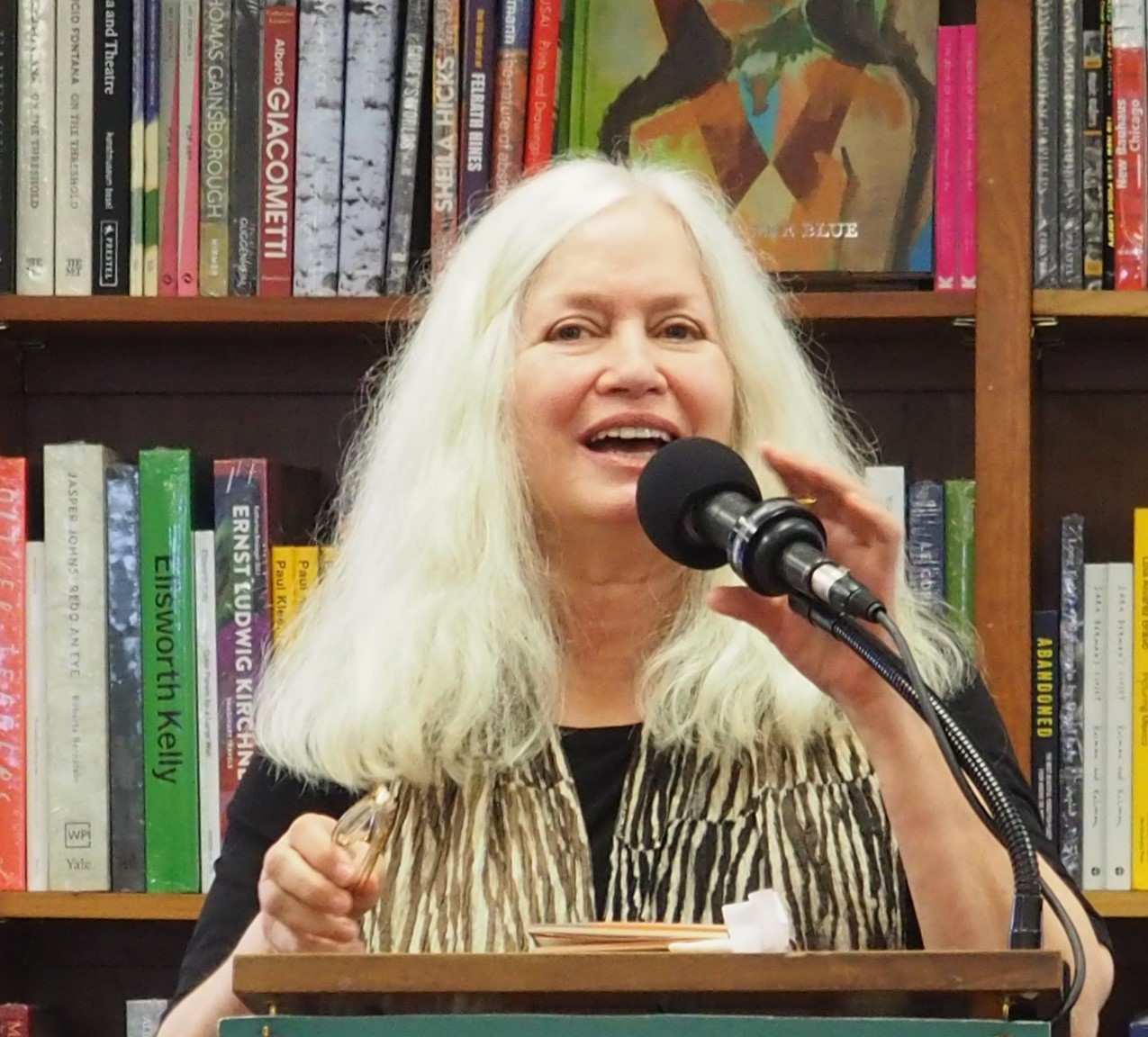 reading at Politics and Prose, Washington, D.C.